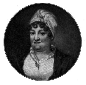 A. M. Desguillons